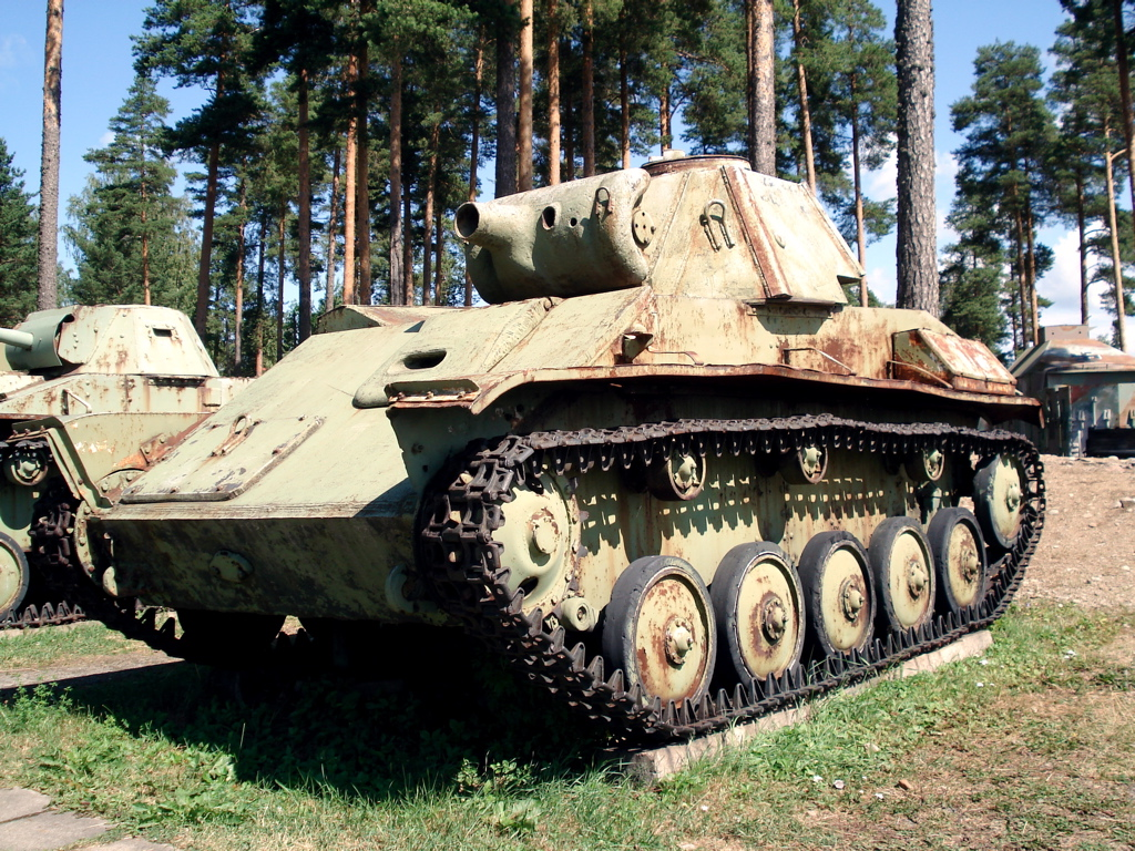 Soviet T-70 light tank, displayed in Finnish Tank Museum (Panssarimuseo) in Parola. The main gun is missing. Photo taken on July 14, 2006. Source: Photo by me, User:Balcer.